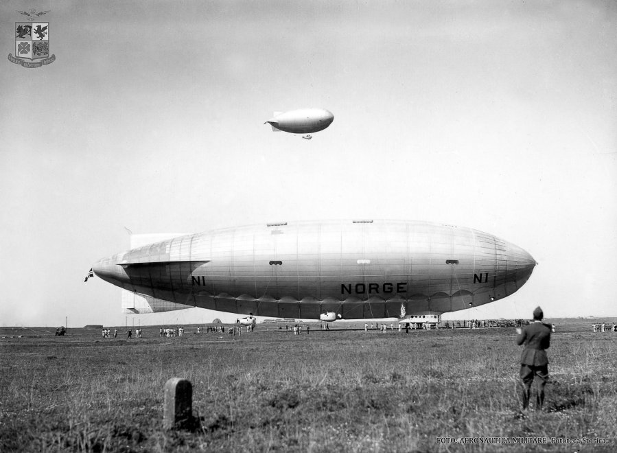 Norge airship on April 10th 1926, ready for Rome - Alaska trans-polar flight in Ciampino Airport